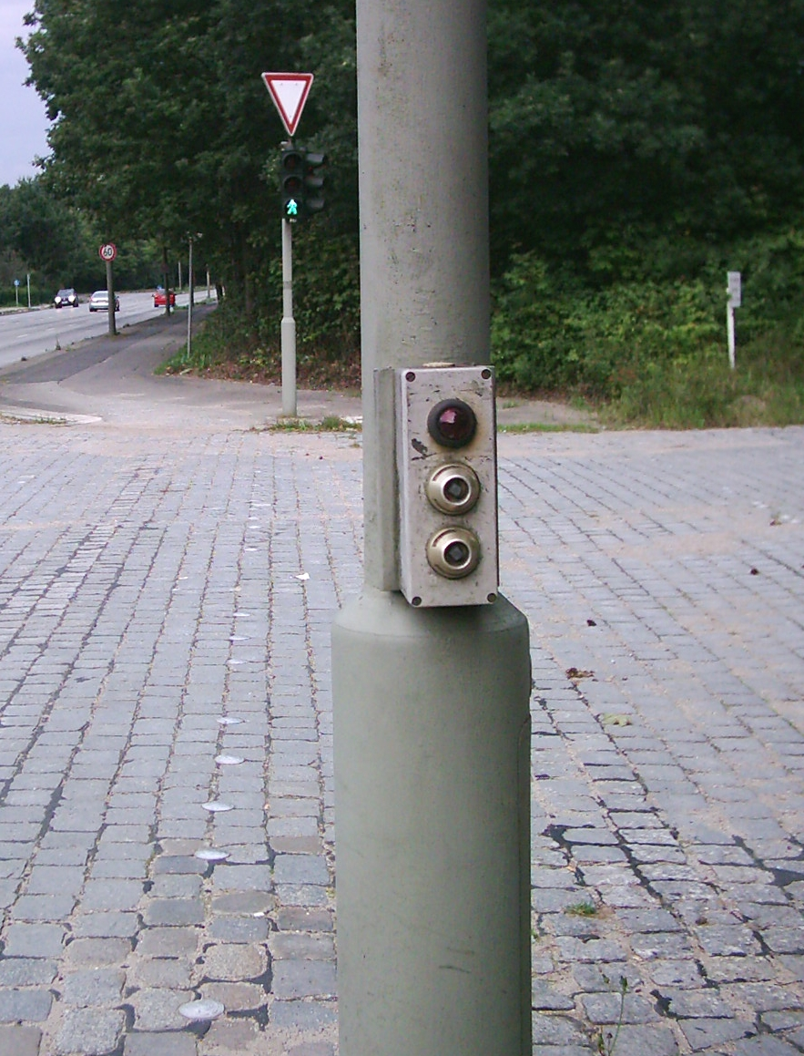 Manual traffic light switch in front of a military base in Hamburg, Germany.